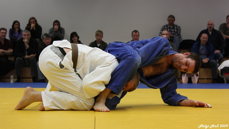 Reykjavik International Games 16th - 18th of January 2009.